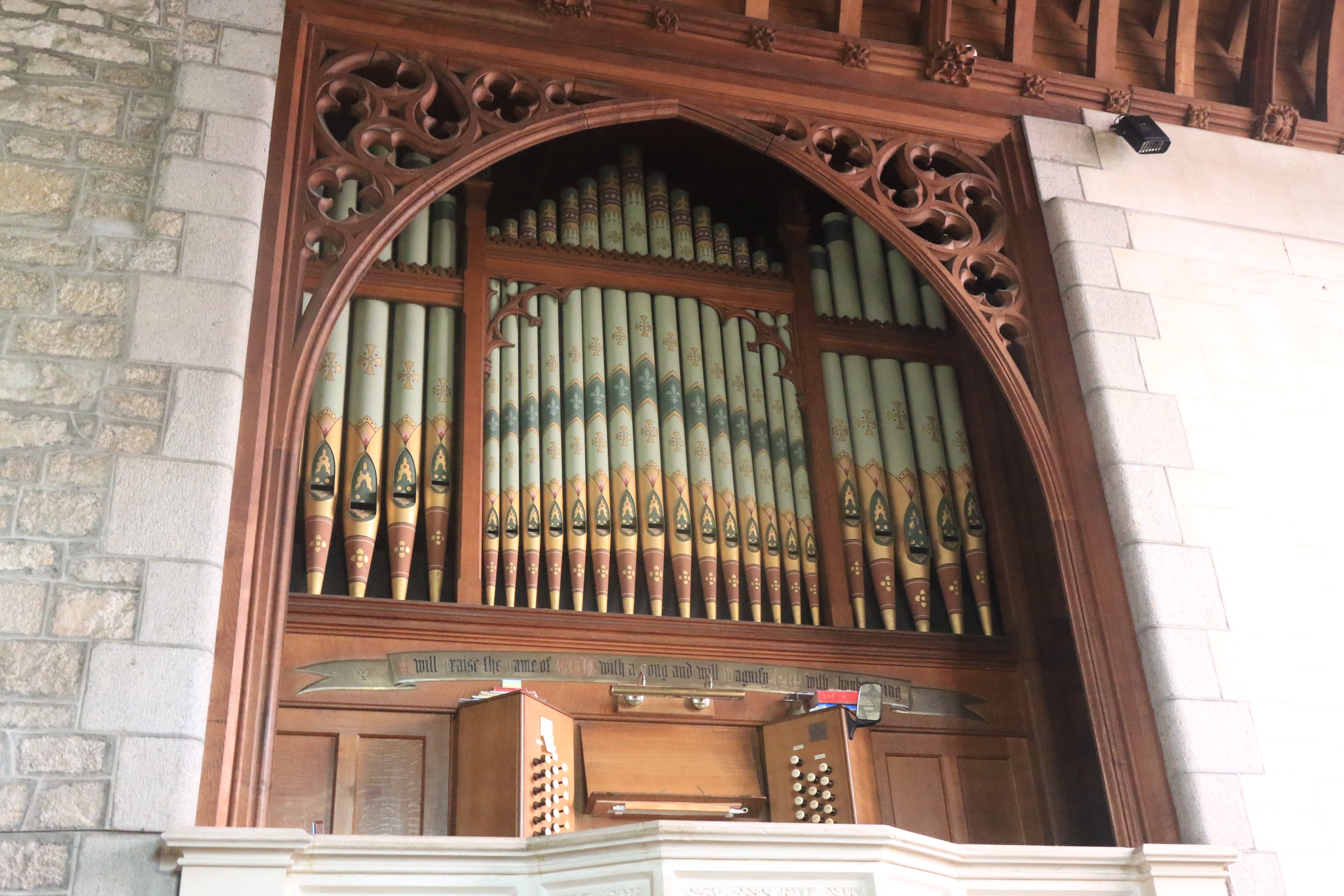 Organ by Hele and Company, Plymouth, dating from 1905